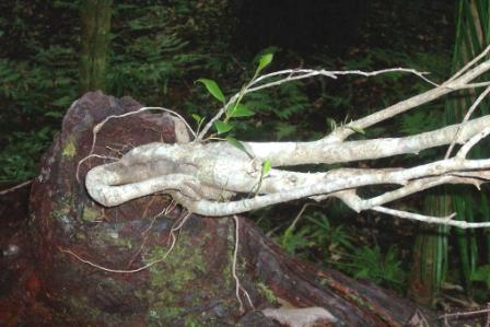 Ficus_obliqua_-_hemiepiphyte_-_Wilson_River_NSW